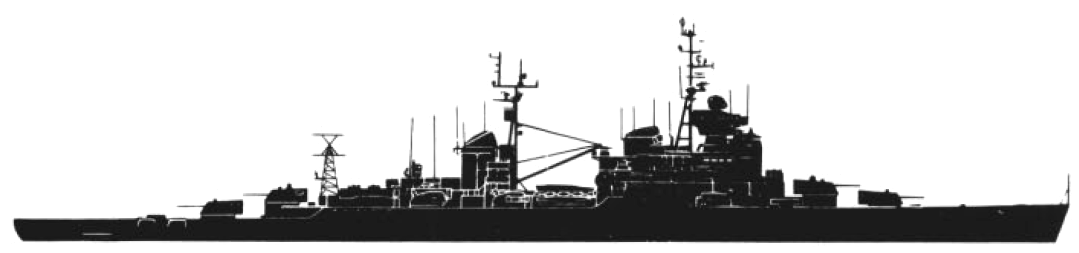 Profile of a Soviet Sverdlov-class (Project 68bis) cruiser.